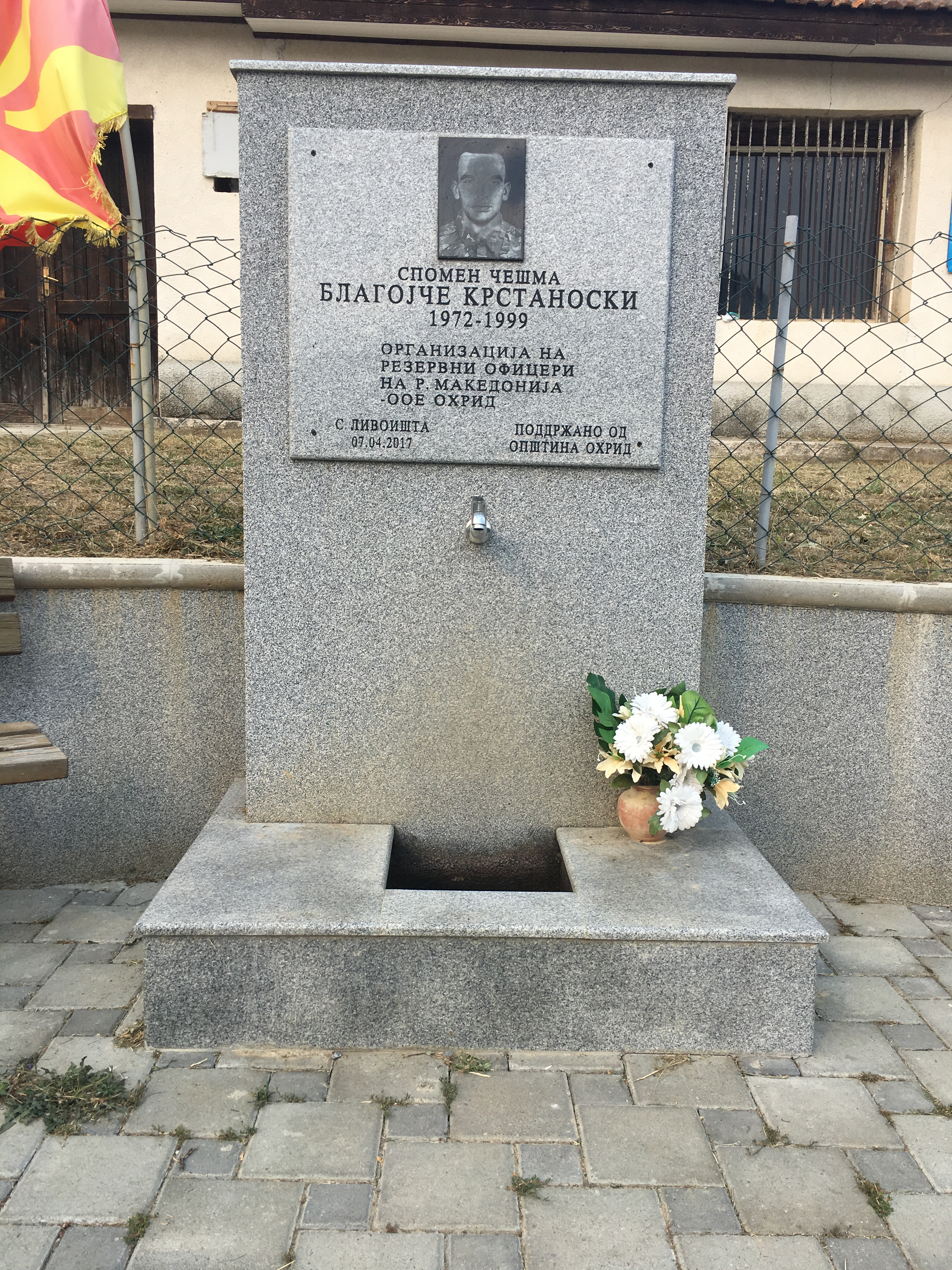 A monument in Vančo Nikoleski Primary School's yard in the village of Livoišta